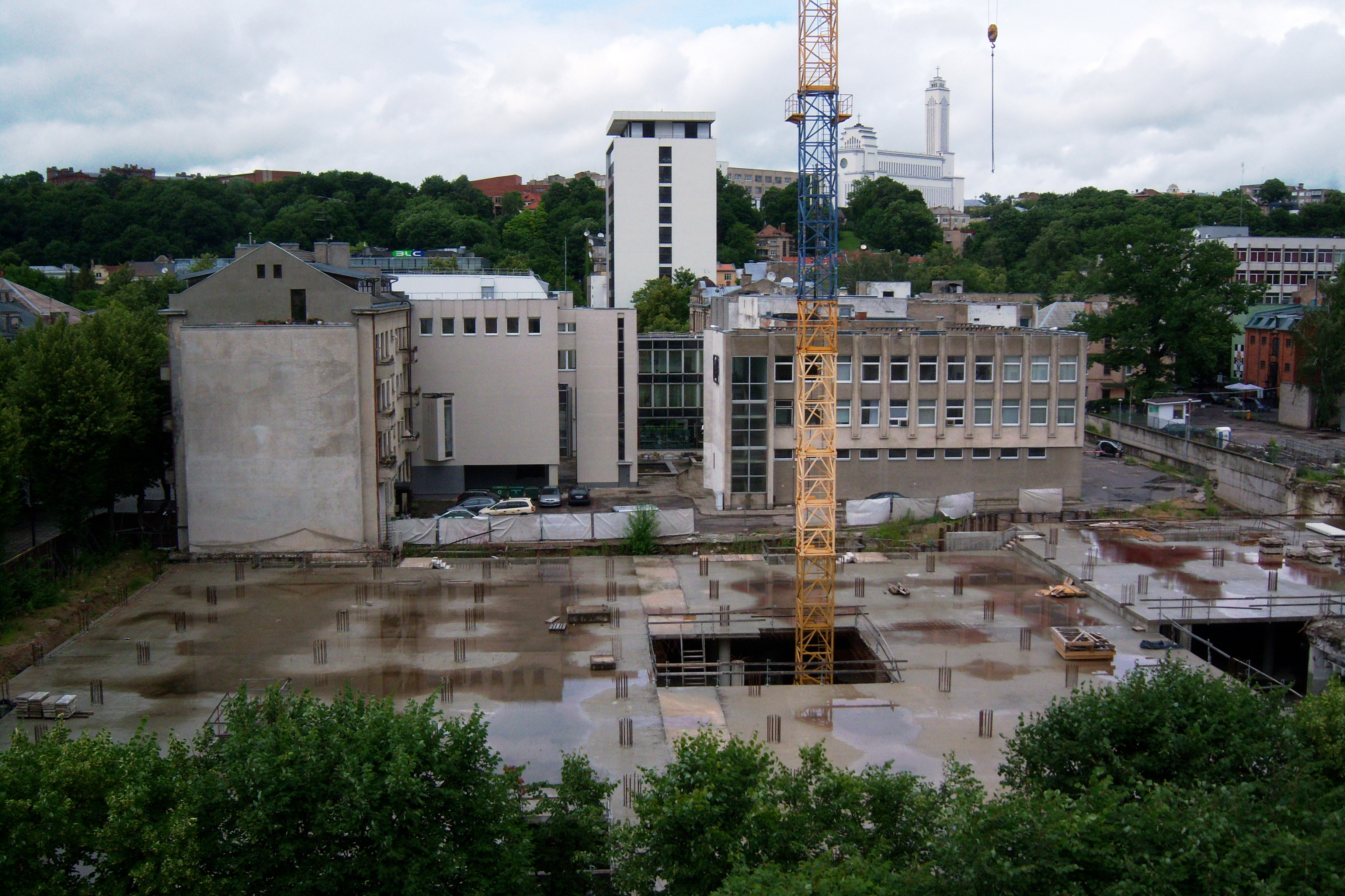 Construction of new "Merkurijus" shopping centre, foundations. Laisvės alėja 60, Kaunas, Lithuania